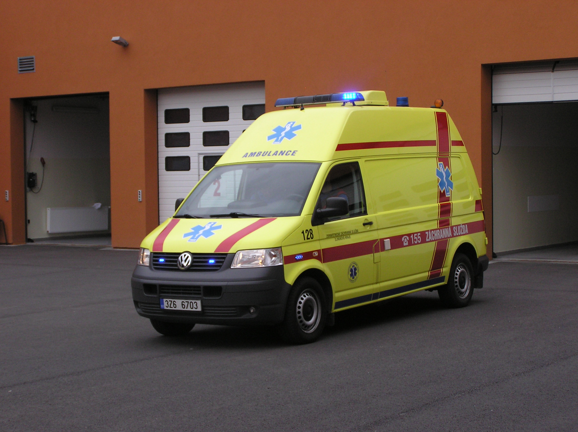 Volkswagen Transporter T5, ambulance vehicle of the Emegency Medical Services of Zlín Region, Zlín, Czech Republic